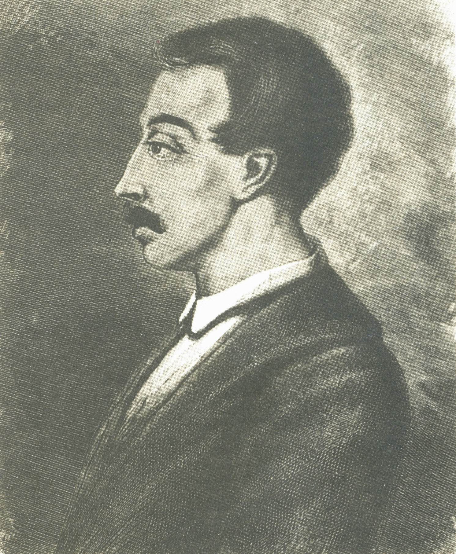 Russian poet and writer Wilhelm Küchelbecker (1797-1846)